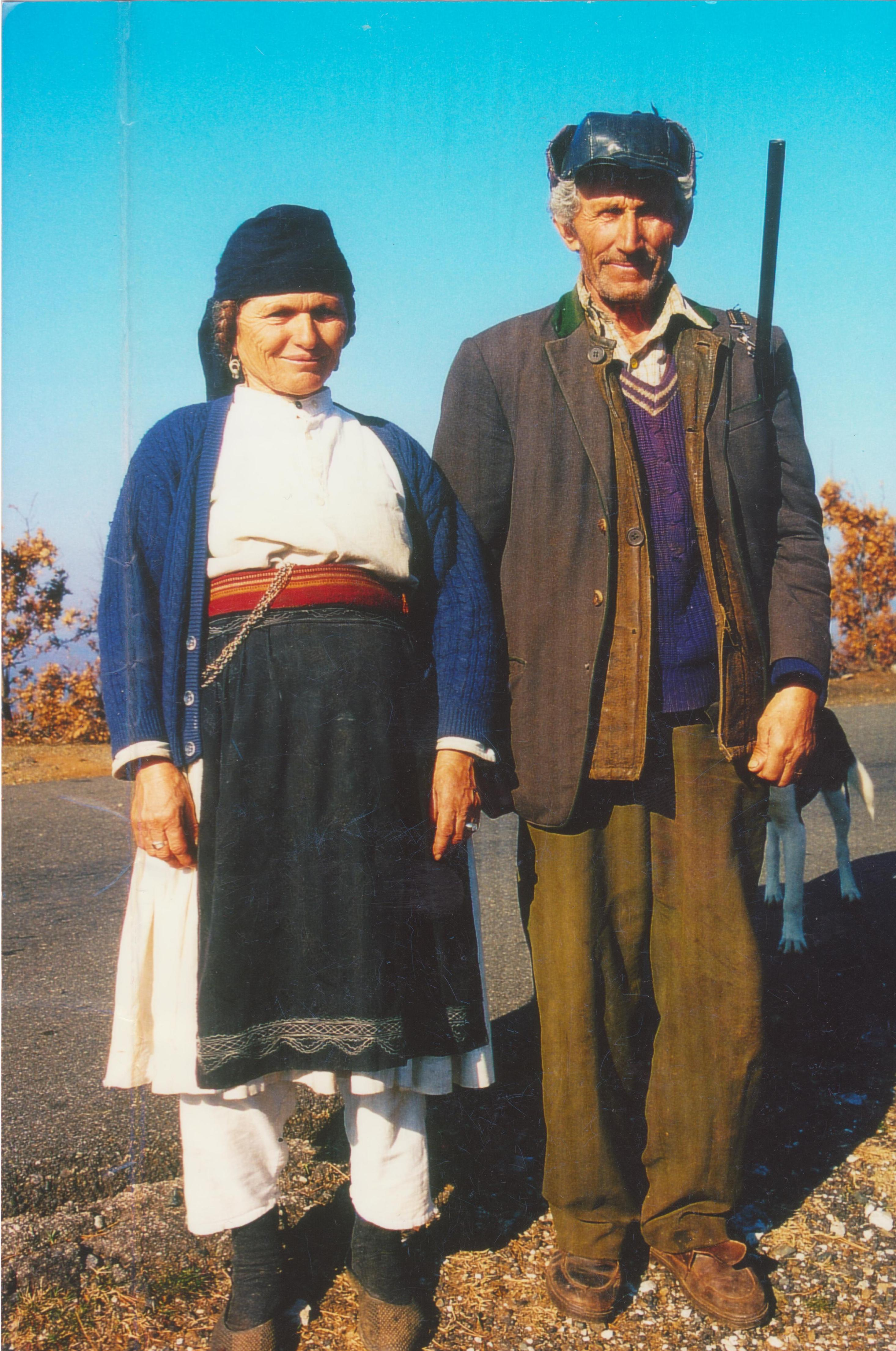 Picture of a man and woman from the highlands of northern Albania.